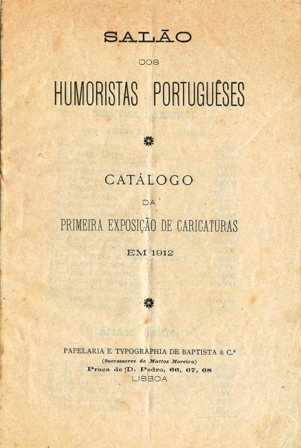 1st Humorist's Salon (I Salão do Humoristas), 1912